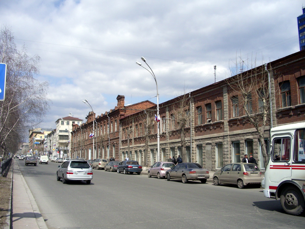 Old pre-revolutionary buildings, a rare sight in the Novosibirsk city. Used as offices and stores. Some buildings in the constructivism style (1930-s) in the background. Krasnyi Prospekt, 22 Novosibirsk city, Russia Photo by Dmitri Lebedev, 06.05.2006.